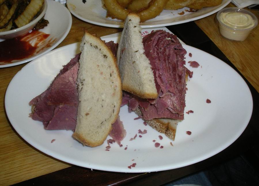 A corned beef sandwich from the Carnegie Deli.